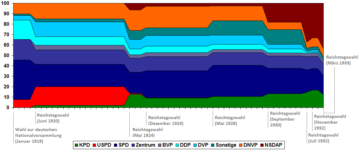 Weimar Republic: election results 1919 - 1933. Source: Heino Kaack, Geschichte und Struktur des deutschen Parteiensystems, Springer-Verlag, 2013, ISBN 9783322835277